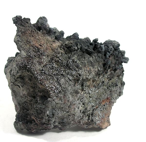 Rheniite Locality: Kudriavy (Kudryavyi) volcano, Iturup Island, Kuril Islands, Sakhalinskaya Oblast', Far-Eastern Region, Russia (Locality at ) Rheniite is the only known mineral with Rhenium as its primary metallic constituent and as such is a fascinating species. It occurs at a volcanic vent in this remote area of Russia, and scientists have to climb down into hot crevasses to find the stuff. That being said, it is usually pretty ugly and massive material in terms of specimen appeal on the macro level. THIS piece, brought to my attention by my friend Dmitriy Belakovskiy of the Fersman Museum, has rheniite draped liberally on one side of the specimen and actual hardened rock made from the bubbly lava on the other! This shows the origins of the material so well, compared to most rather chunky specimens. Even aside from the lava, it is a really rich specimen with LOTS of bright microcrystalline rheniite. 8.9 x 7.8 x 7.7 cm